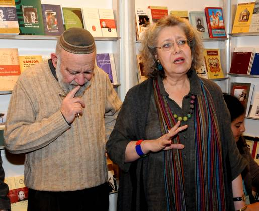 Mira Zakai (right) & Andre Hajdu in Jerusalem